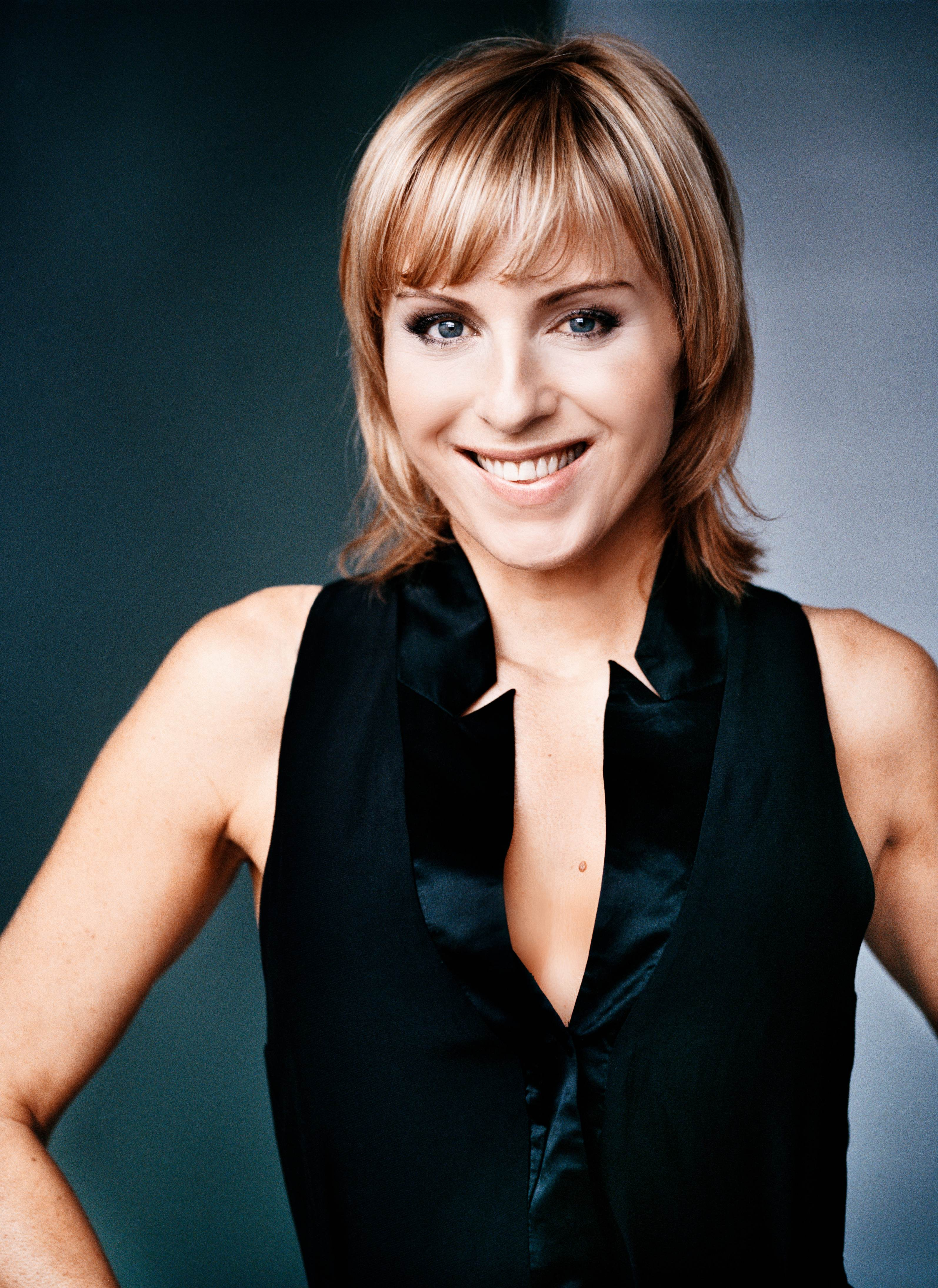 Silje photographed in Berlin November 2011